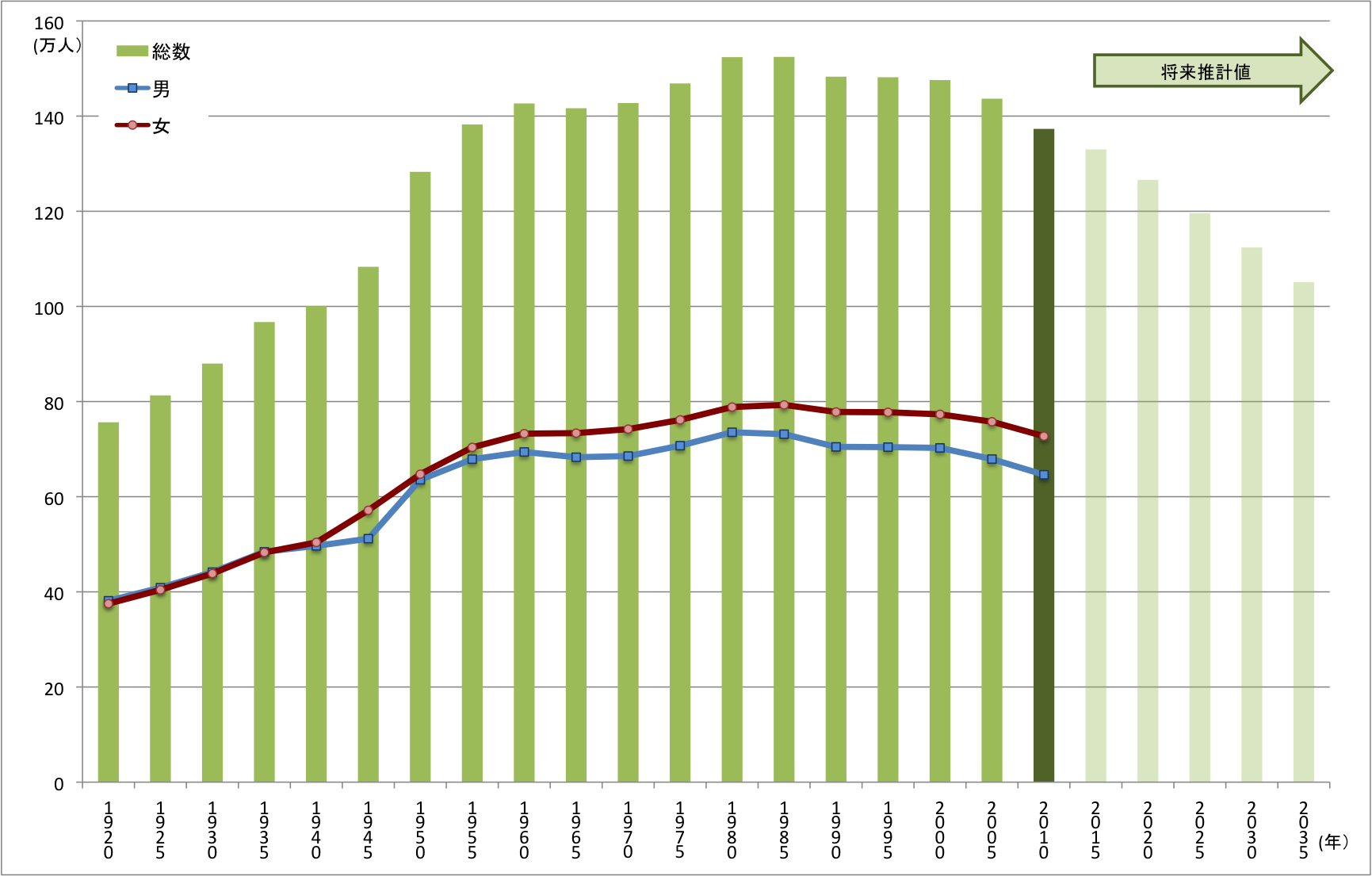 Changes in population of Aomori prefecture,Japan 1920-2005